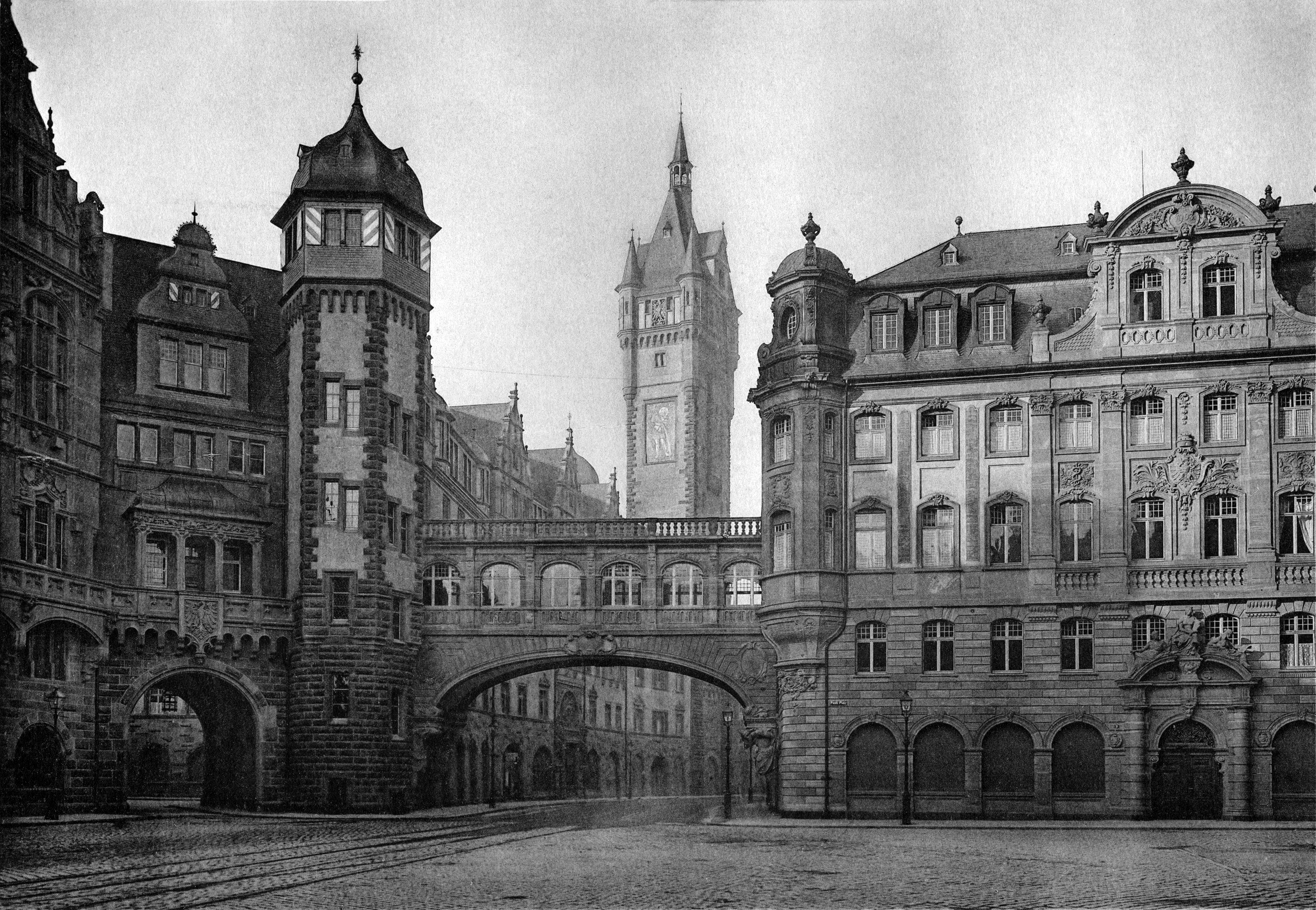 Frankfurt on the Main: New Town Hall with the tower Langer Franz (Tall Franz) as seen from the Paulsplatz (Paul's Square)